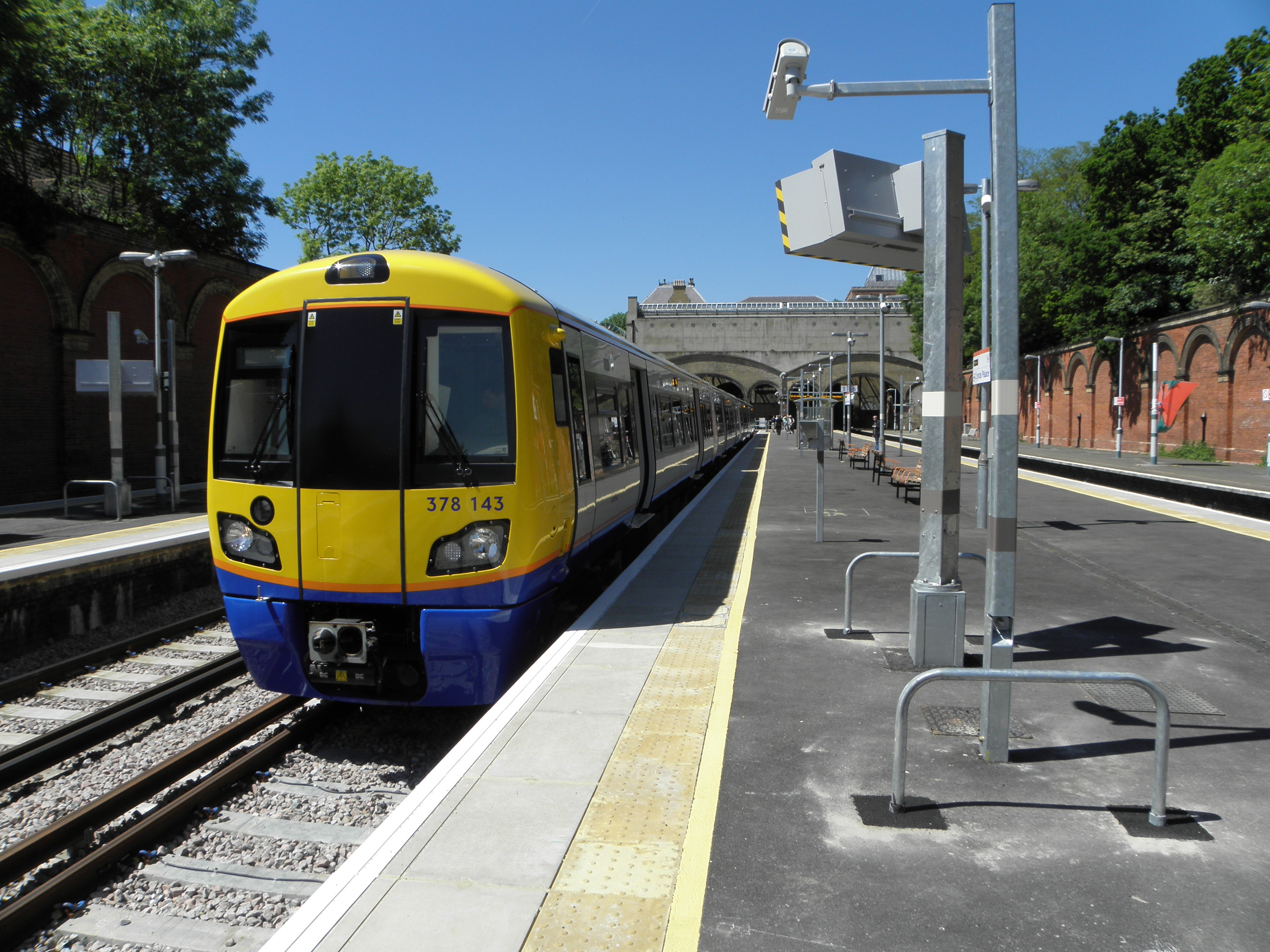 Class 378 unit 378143 at Crystal Palace awaiting return to Dalston Junction, on first day of East London Line services at the station.